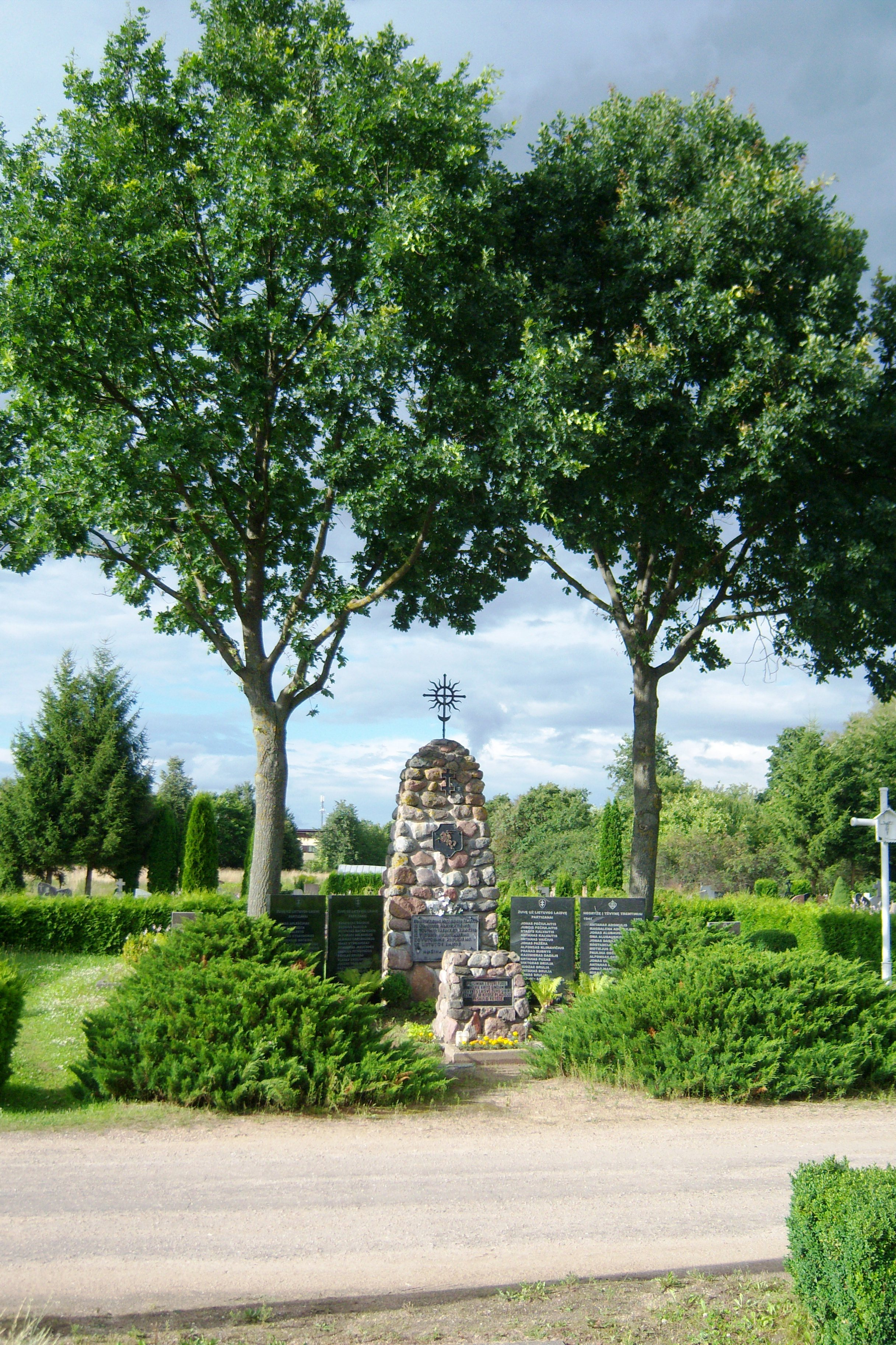 Monument to resistence movement victims, Jonučių cemetery, near Garliava, Kaunas district. Lithuania